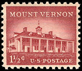 Mount Vernon, the home of George Washington, was memorialized with a 1.5-cent stamp on February 22, 1956. The first of the shrines in the Liberty Series is the Mount Vernon issue, a view of Washington's home facing the Potomac River.